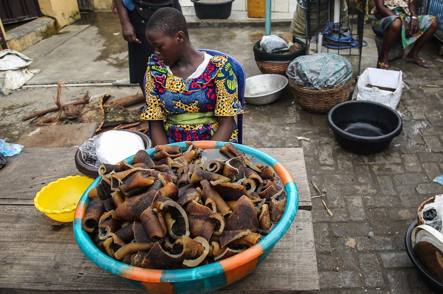 Smoked cow skin in Lagos, Nigeria This is an image of food from Nigeria